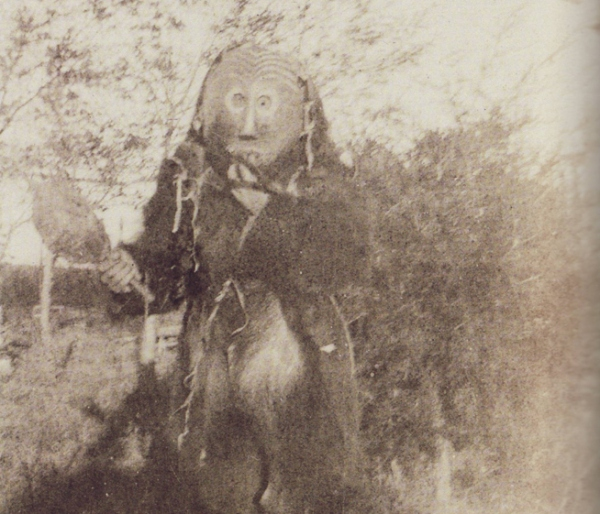 Lenape performing traditional dance, dressed as the Mesingoholikan, an incarnation of the spirit who negotiated between people and the spirits of animals they killed